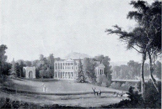 West Wycombe Park, Buckinghamshire, England. Late 18th century monochrome print. Probably published in London circa the late 1790s. It is unsigned.